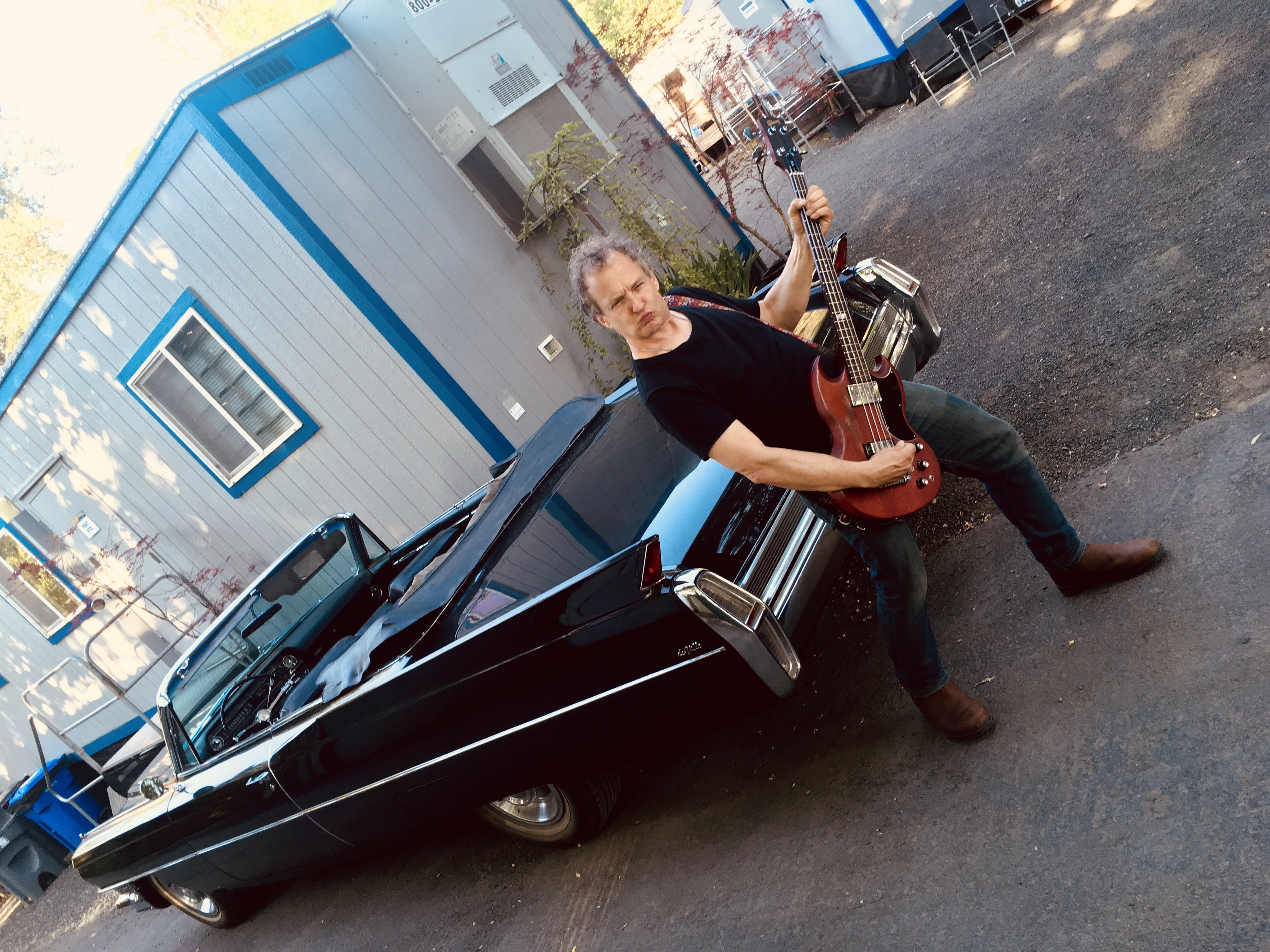 Dave backstage before Joe Russo's Almost Dead show at Cuthbert Amphitheater in Bend Oregon.